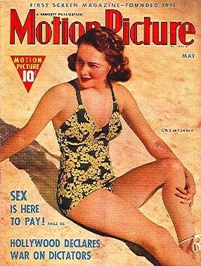 Olivia de Havilland